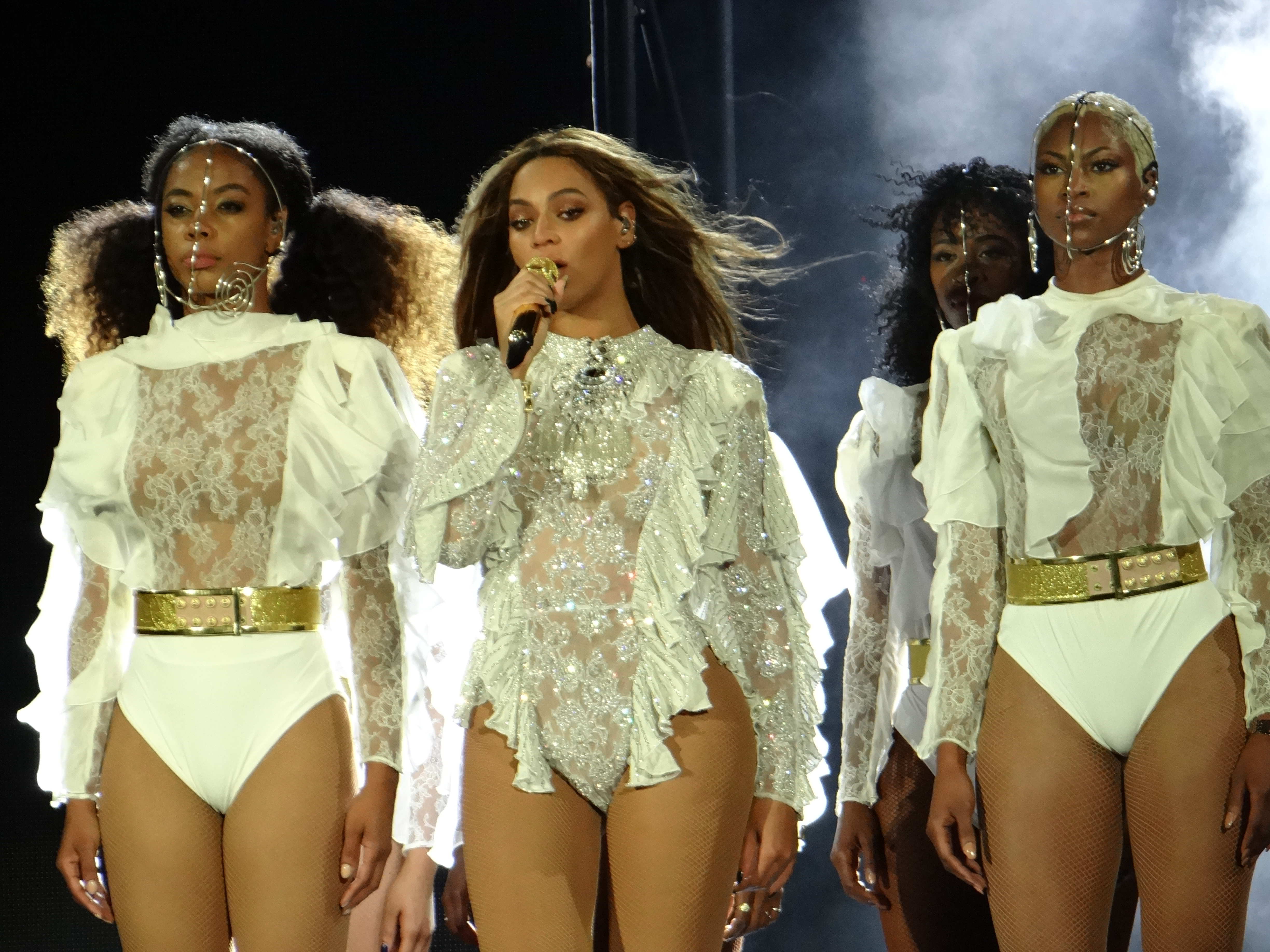 Beyoncé performing during The Formation World Tour in Raleigh, North Carolina on May 3, 2016